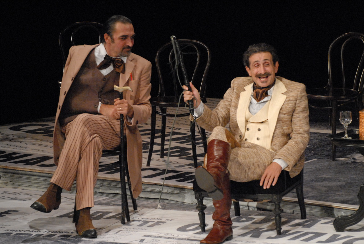 "Was There the Prince's Dinner" written and directed by Vida Ognjenović, Drama of the SNT, Novi Sad, 2008/09; Predrag Momčilović, Radoje Čupić Srpski (latinica): "Je li bilo kneževe večere", napisala i režirala Vida Ognjenović; Drama SNP-а, 2008/09; Predrag Momčilović, Radoje Čupić Српски (ћирилица): "Је ли било кнежеве вечере", написала и режирала Вида Огњеновић; Драма СНП-а, 2008/09; Предраг Момчиловић, Радоје Чупић